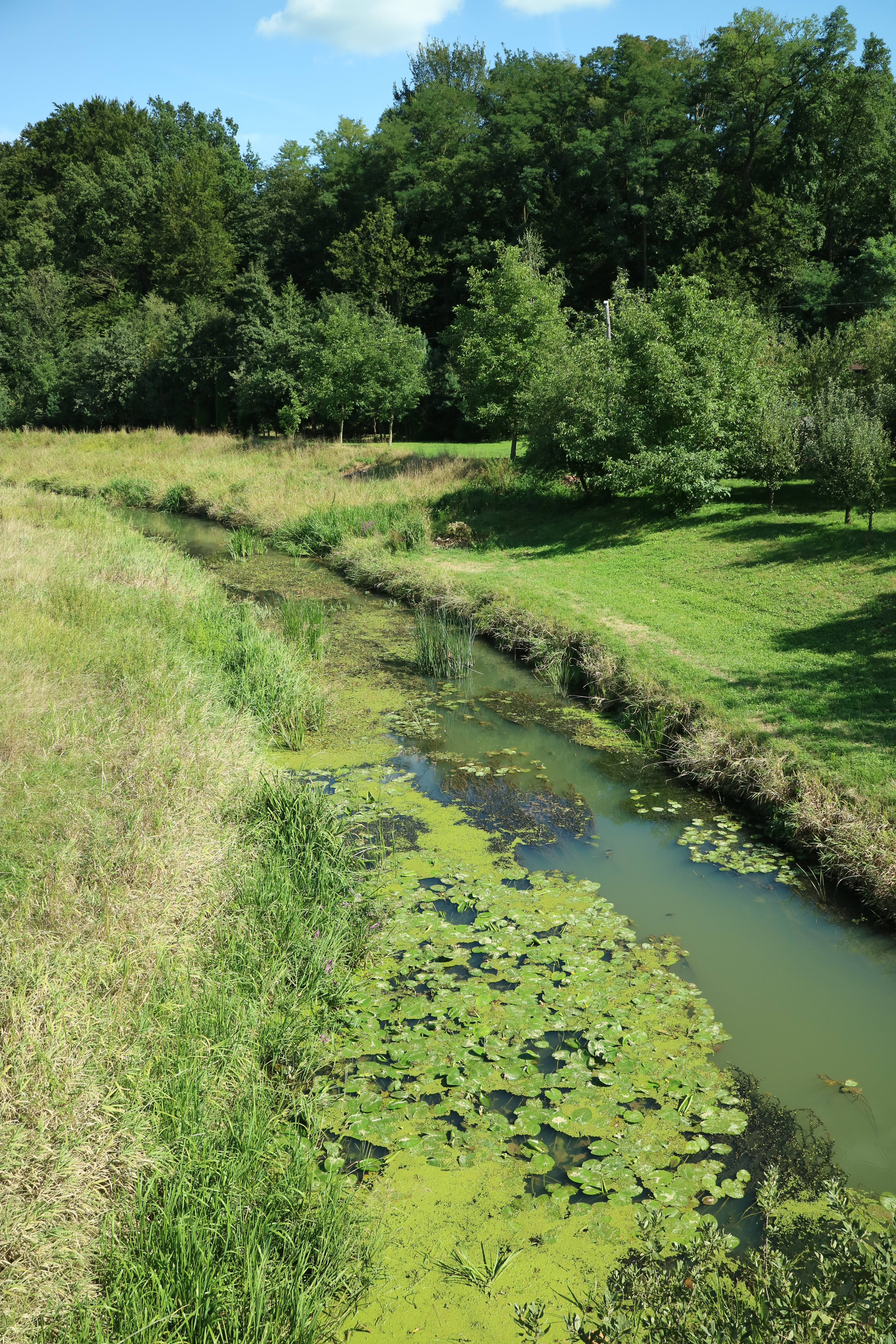 River Ščavnica near Pristava, Slovenia